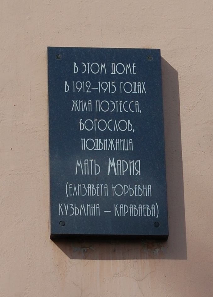 Maria Skobtsova Commemorative Plaque in Saint Petersburg (Manezhny Lane)